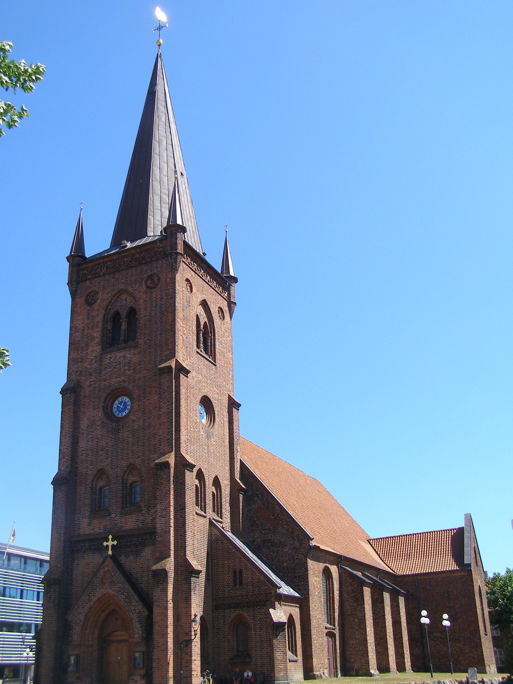 photographer releases all rights subject: st nicolas church velje denmark date of photo july 2006